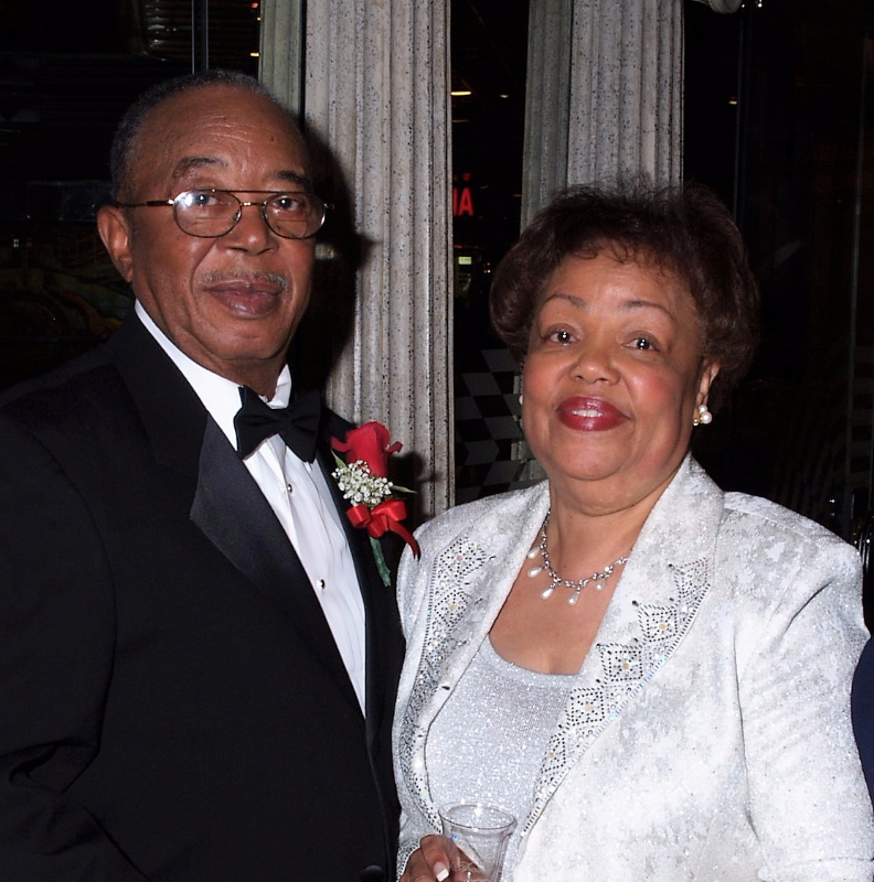 Rep. John Lewellen with wife Rep. Wilhelmina Lewellen, his successor in the Arkansas Legislature